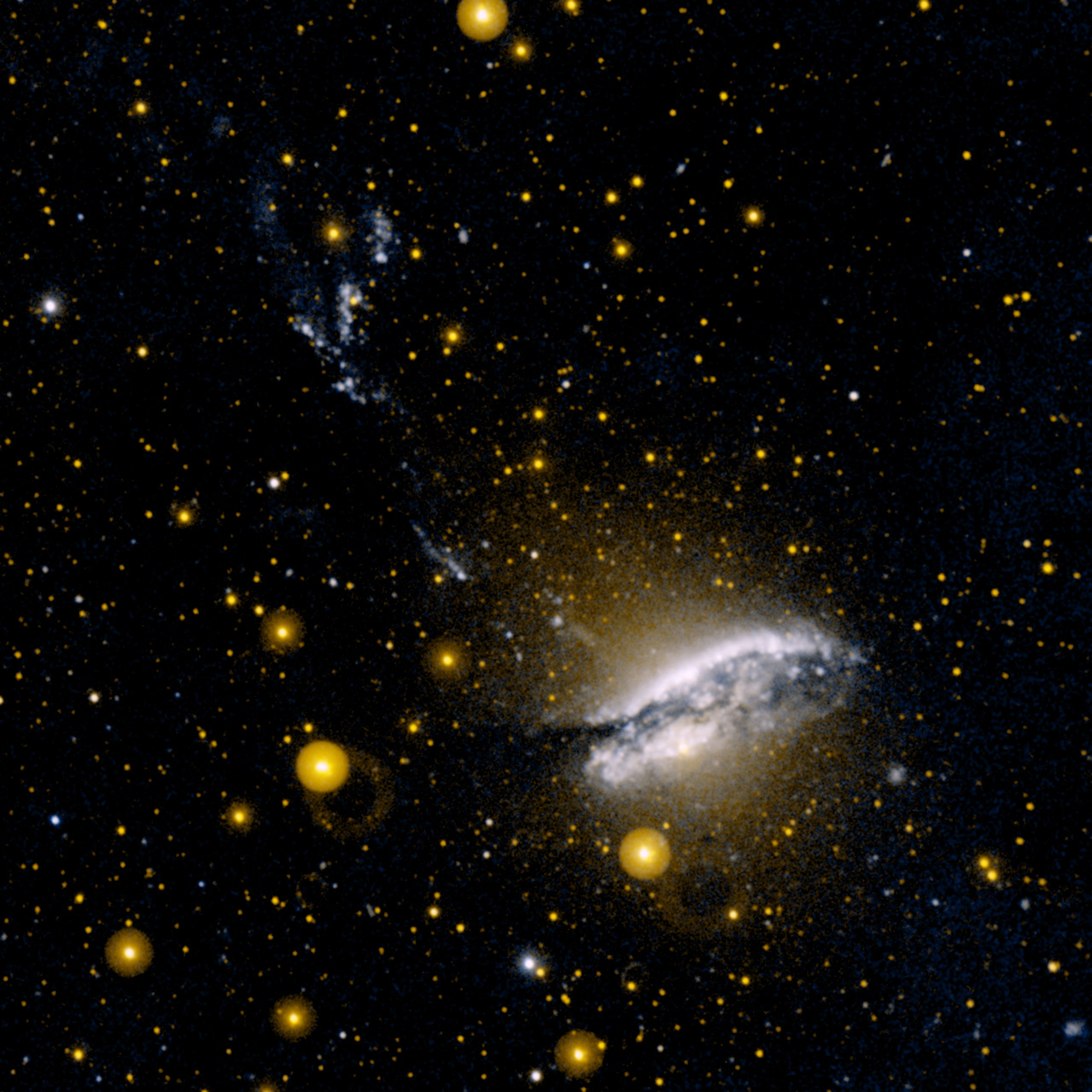 Ultraviolet image of NGC 5128 (Centaurus-A). This unusual galaxy is believed to be the result of a collision of two normal galaxies. The blue regions toward the top are thought to be areas of star formation induced by powerful jets originating from a central black hole.